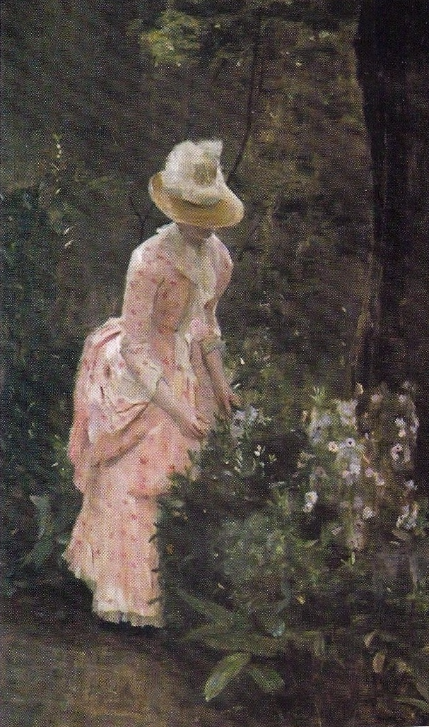 Eleanor Norcross, Woman in a Paris Garden, Fitchburg Art Museum